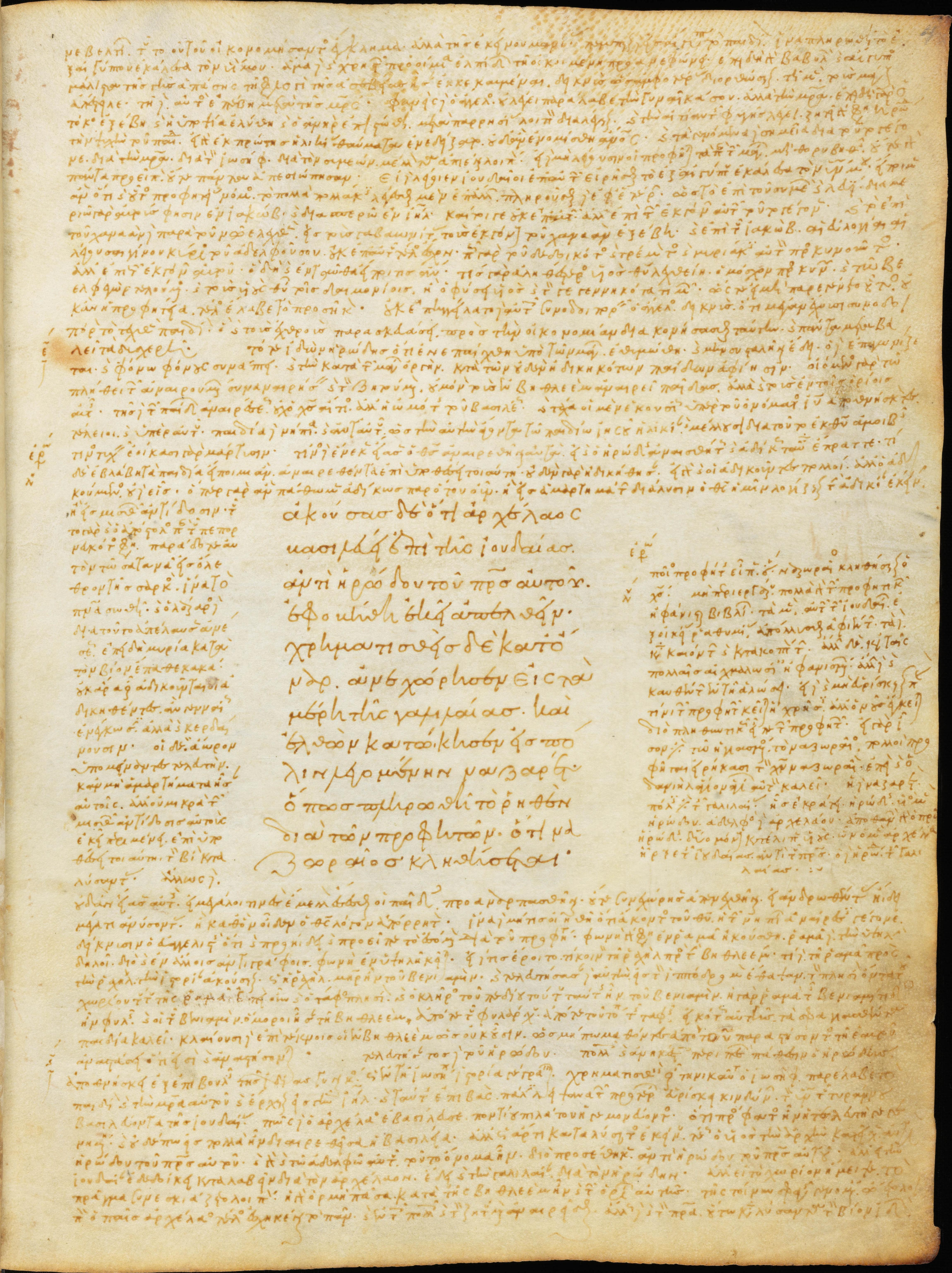 folio 4 recto of the codex, the biblical text is surrounded (catena on 4 margins)